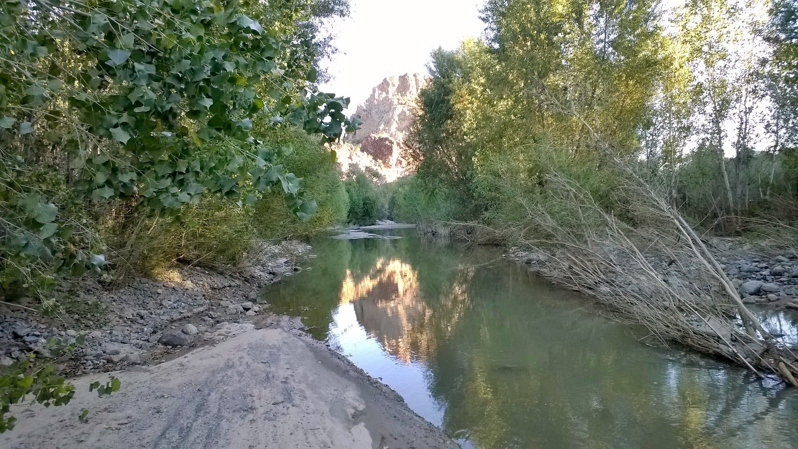 The Big Sandy River flows year-round at the Arrastra Mountain Wilderness area.